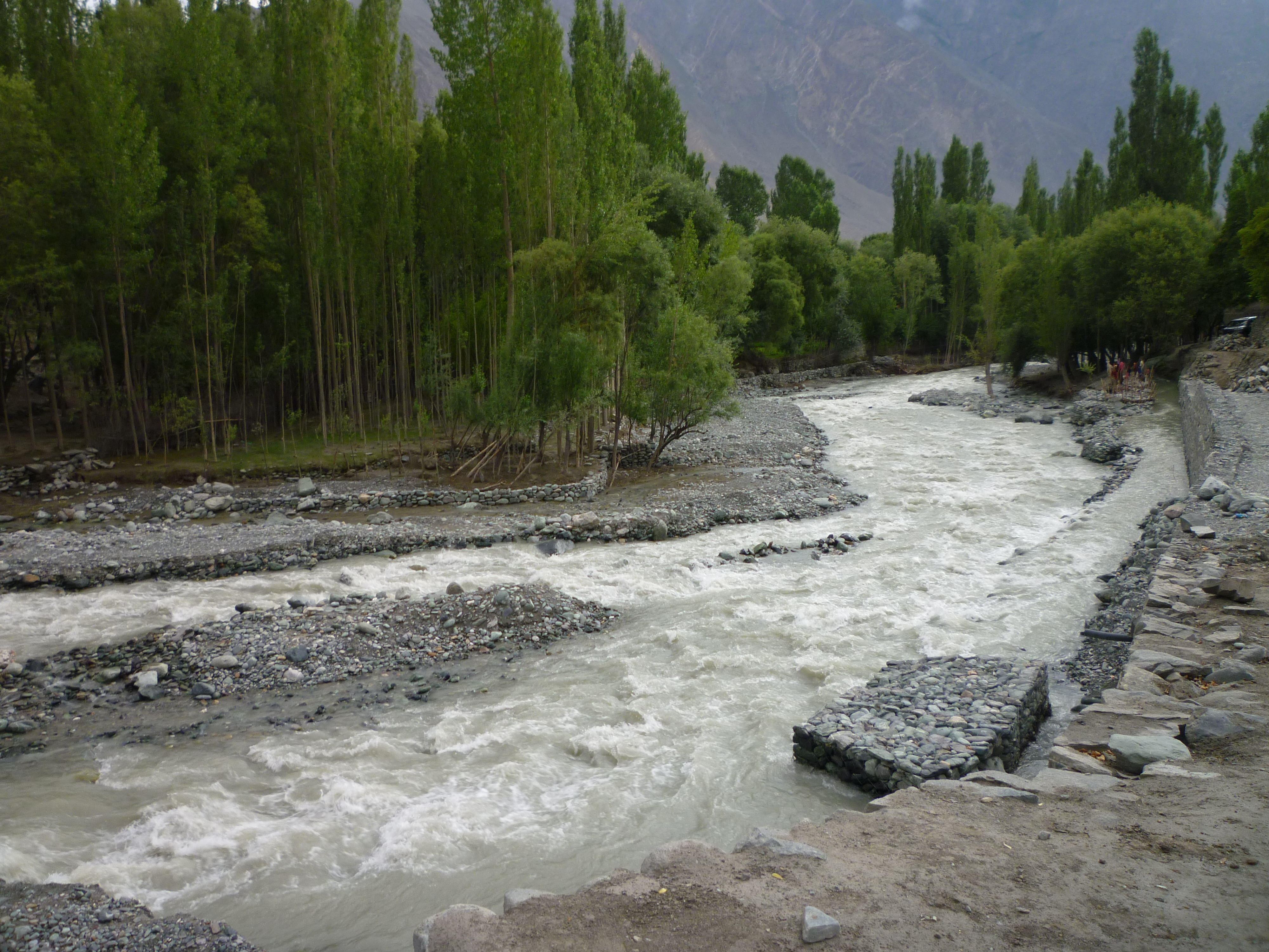 River Shigar infront of Shigar Fort.